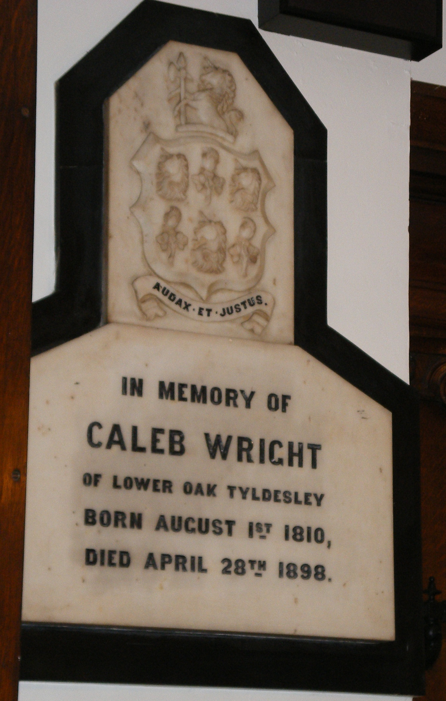 Marble plaque in memory of Caleb Wright in Chowbent Chapel, Atherton, Greater Manchester